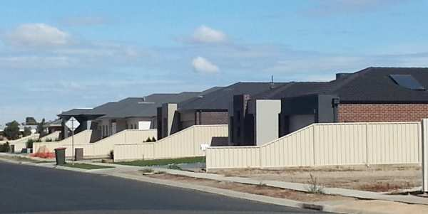 Suburban expansion in Horsham, Victoria